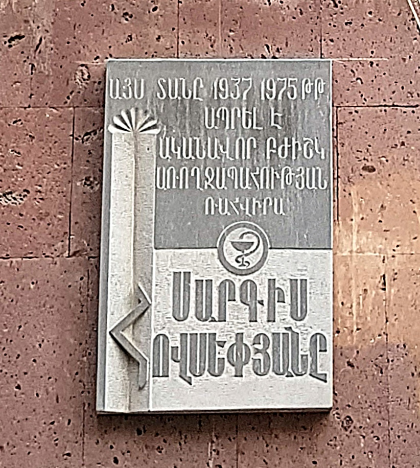 Plaque to Sargis Hovsepyan on Saryan street, Yerevan